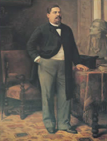 Portrait of the Venezuelan President Raimundo Andueza Palacio (1890)